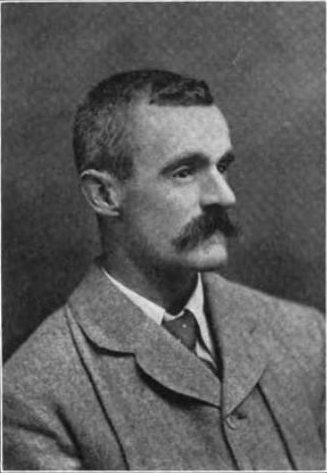 Photograph of English novelist Harold Edward Bindloss appearing in the March 1909 issue of The Bookman, p. 17